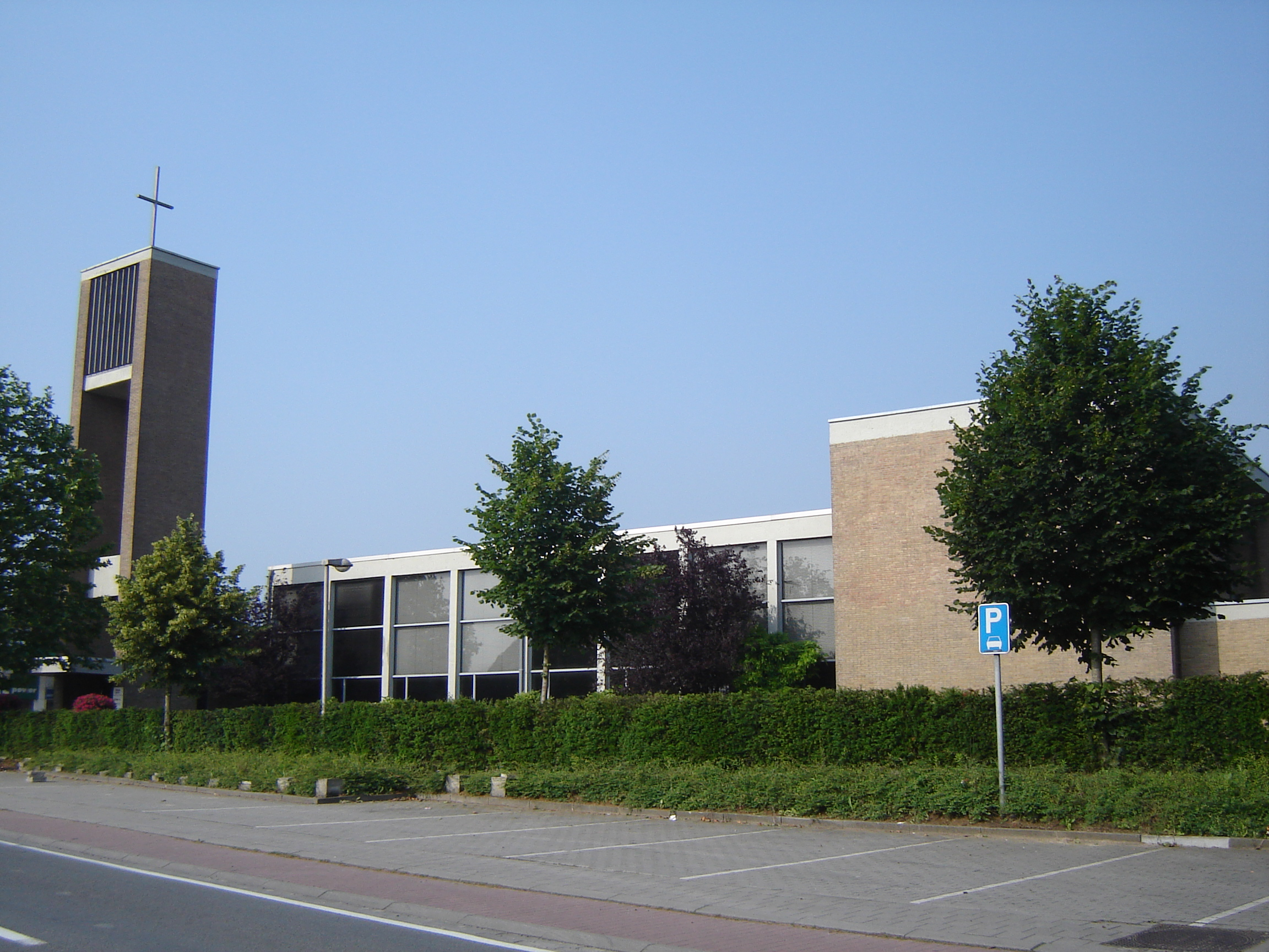 Church of the Holy Mother Anne in the Molenhoek quarter, Deerlijk. Deerlijk, West Flanders, Belgium